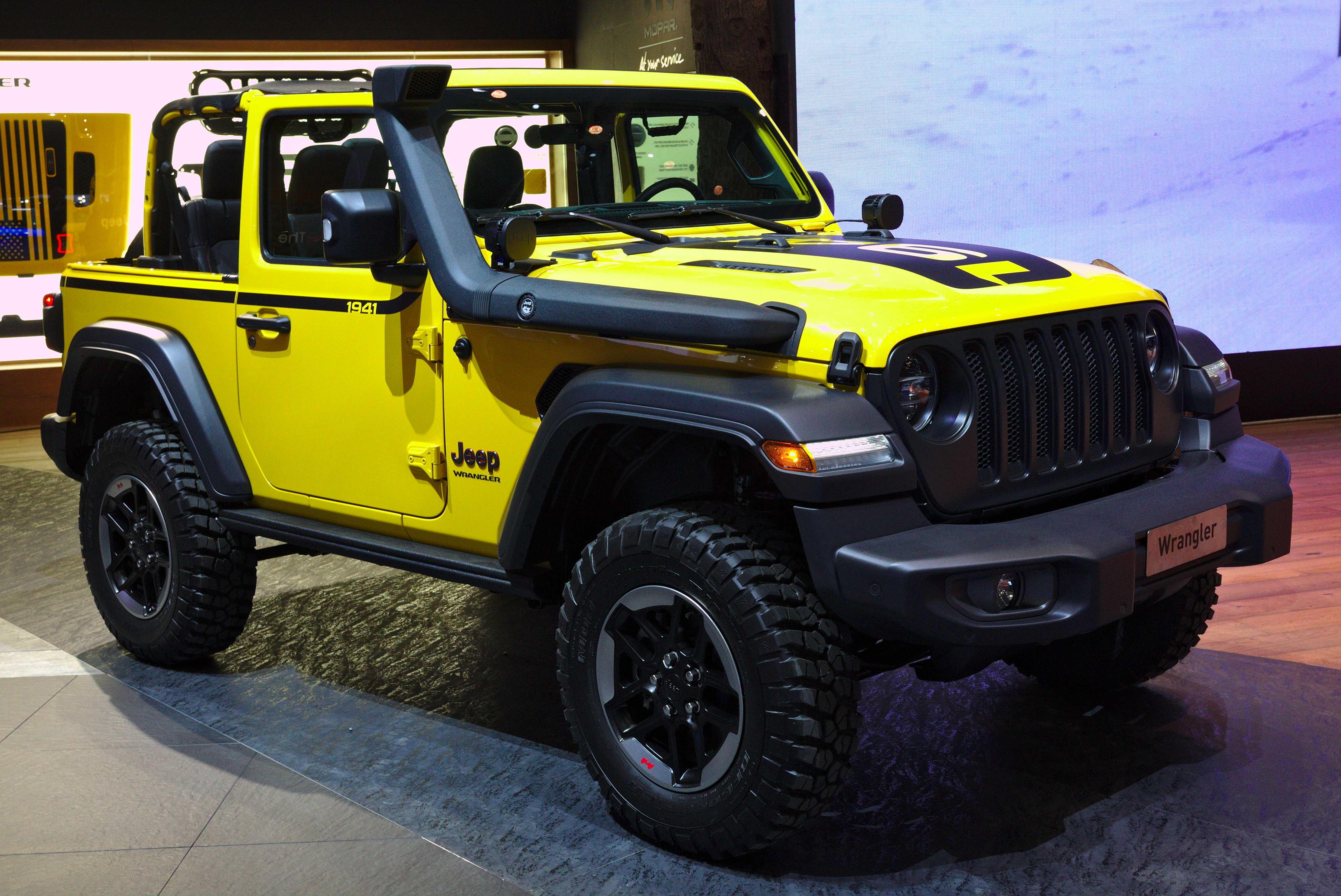 Jeep Wrangler Mopar at Geneva Motor Show 2019